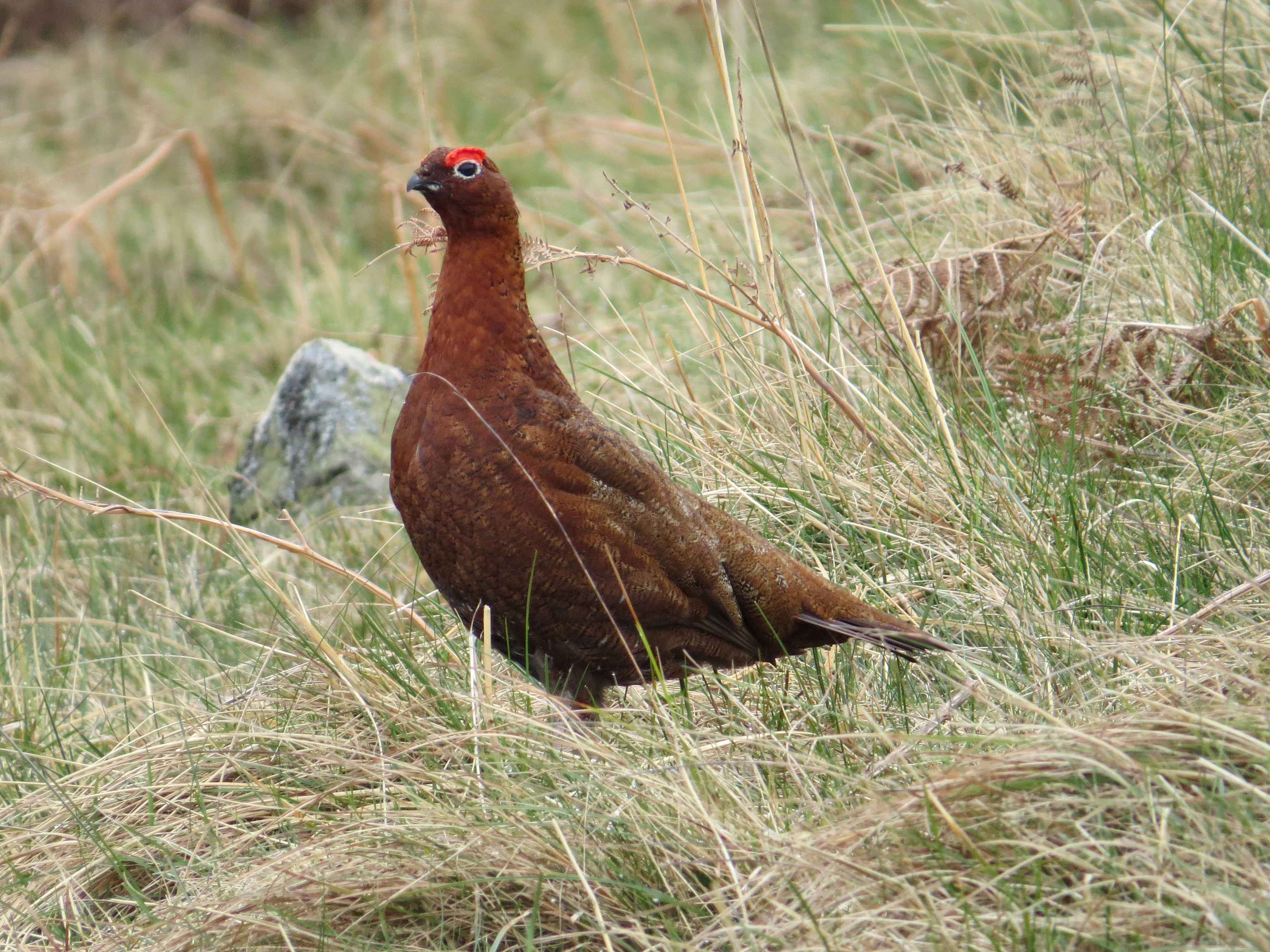 Red Grouse Lagopus lagopus scotica ♂, Hawsen Burn, Cheviot Hills, Northumberland